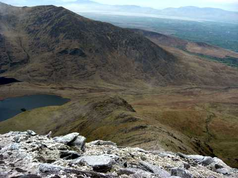 The north-east spur of Maolán Buí known as The Bone (not to be confused with The Bones summit on Beenkeragh Ridge) which leads into the Hag's Glen